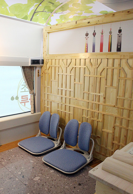 G-Train West Gold Train (Korail) interior January 29, 2015 Ministry of Culture, Sports and Tourism Korean Culture and Information Service ( Wi Tack-whan 2015-01-29 문화체육관광부 해외문화홍보원 코리아넷 위택환